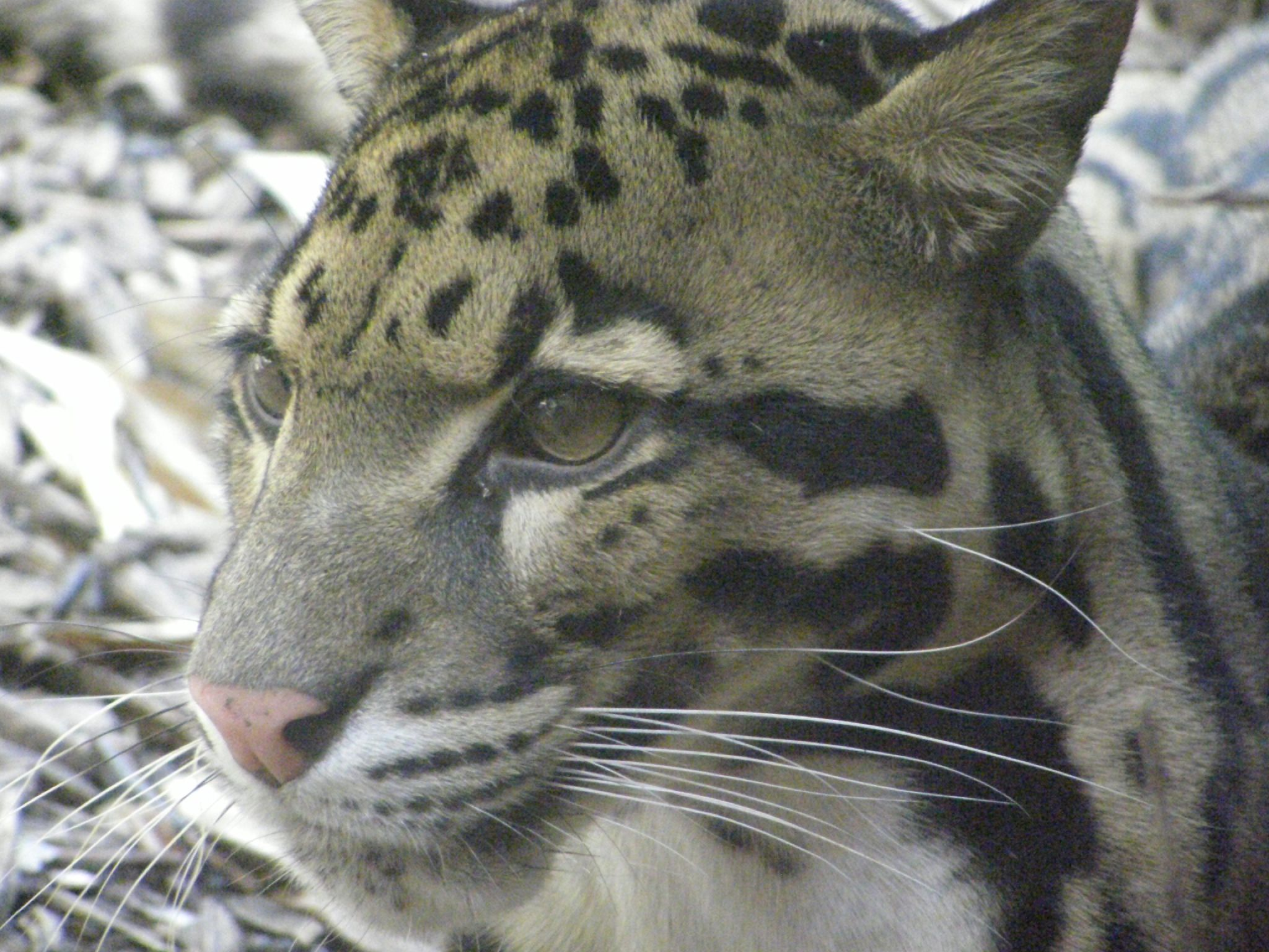 Clouded leopard face, close up